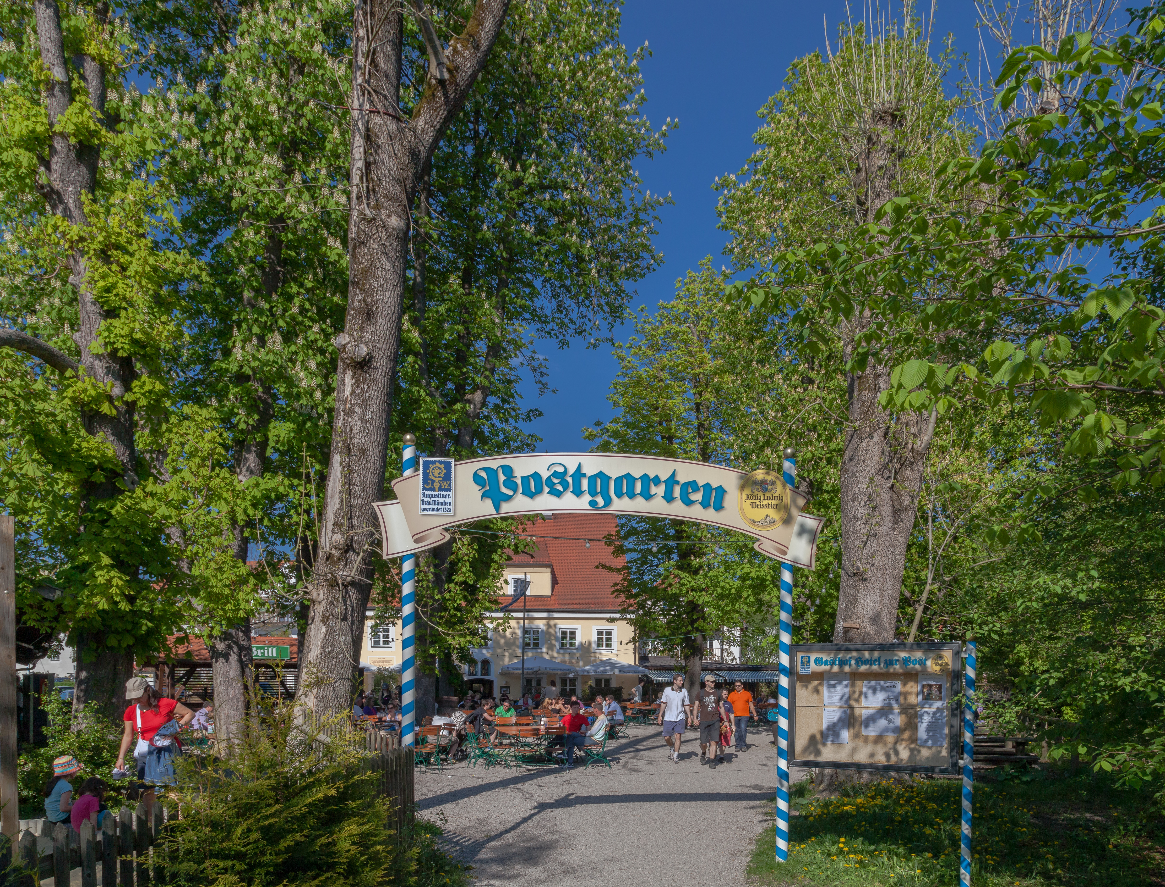 Biergarten, Herrsching, Germany